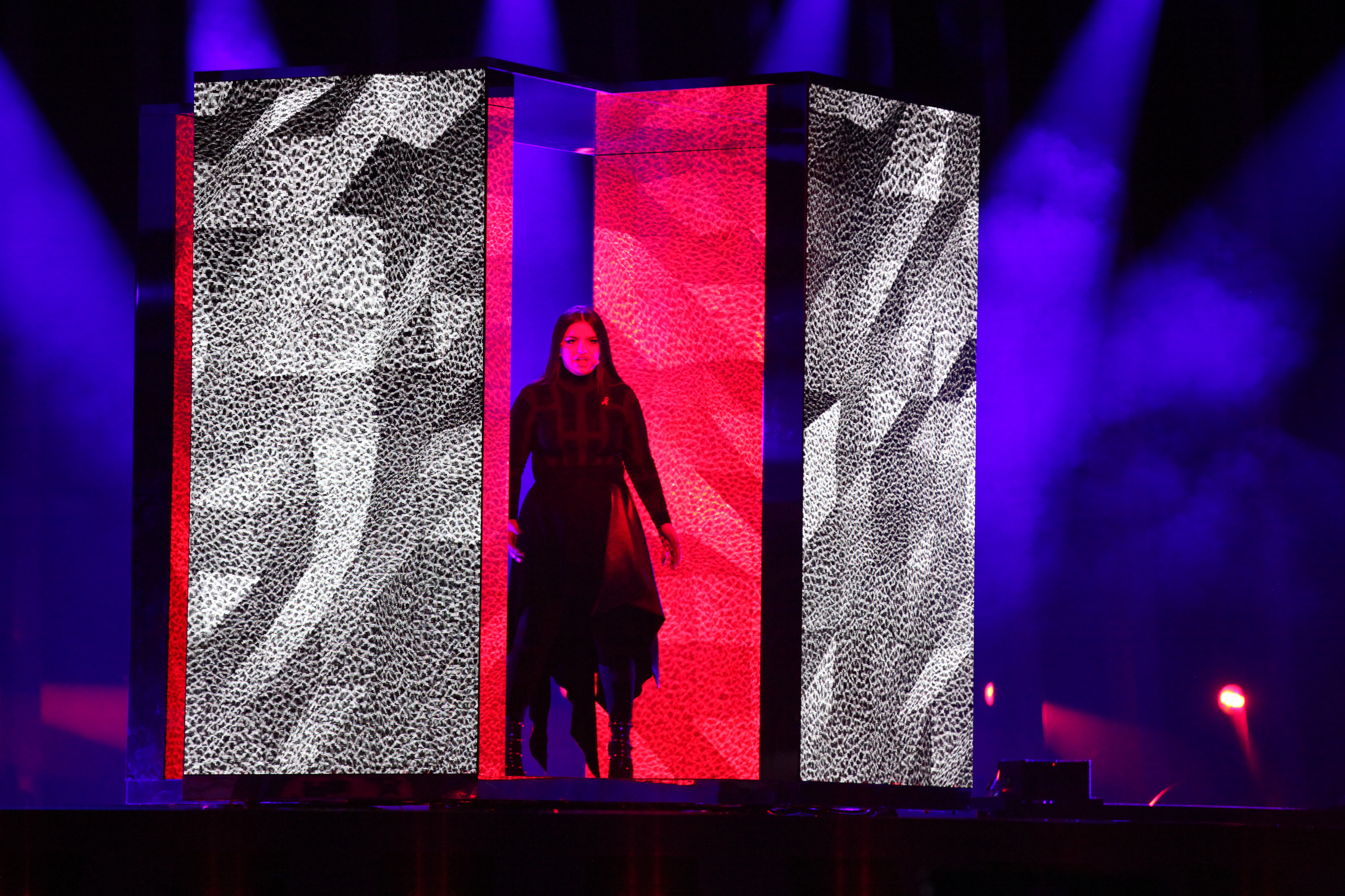 Christabelle representing Malta with the song "Taboo" during a rehearsal before the second semi final of the Eurovision Song Contest 2018 in Lisbon.